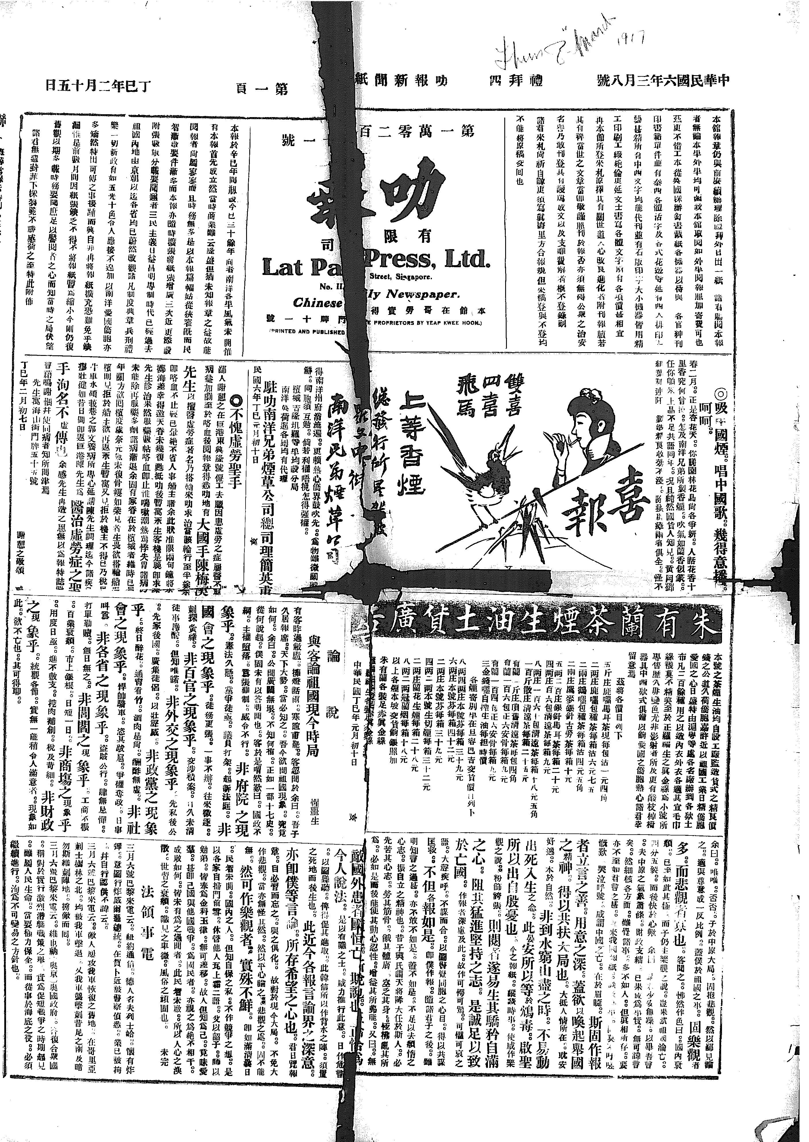 Lat Pau 1917 March 8 - reports continued to be written in Classical Chinese